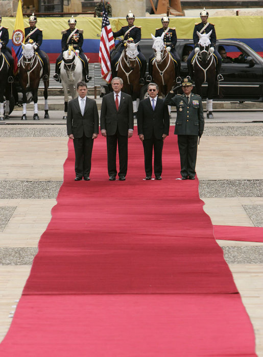 From left to right, Colombian Minister of Defence Juan Manuel Santos, President George W. Bush, President Álvaro Uribe Vélez, general Mario Montoya Uribe, during Bush visit to Bogotá.